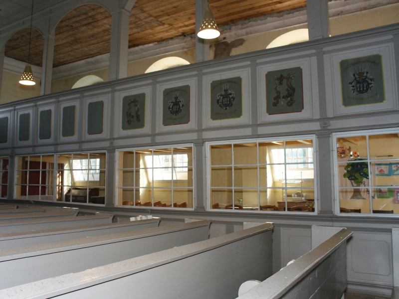 winter church in the church of Pessin Brandenburg, Germany